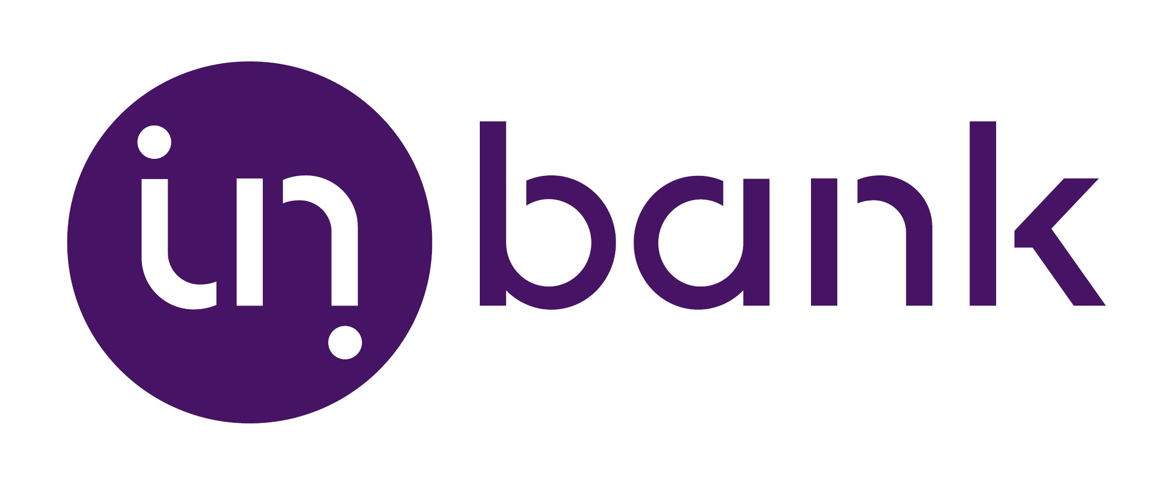 Inbanki logo